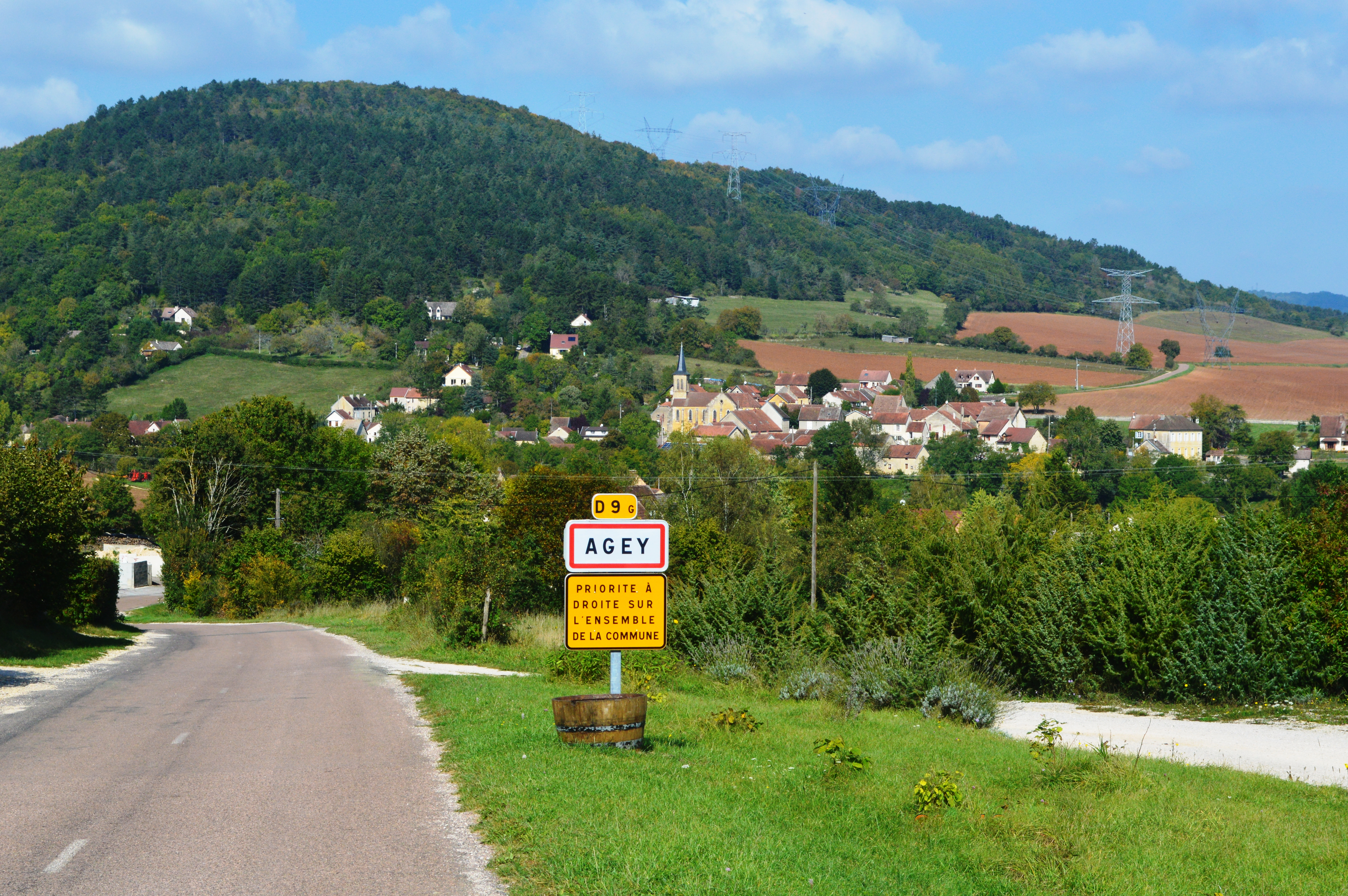 The entry to Agey